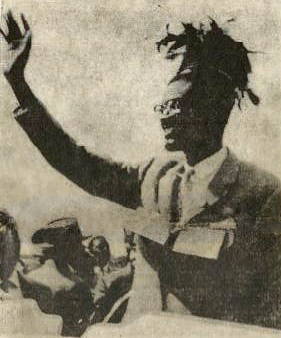 Patrice Lumumba waving to his supporters in Stanleyville while celebrating the Congo's forthcoming independence